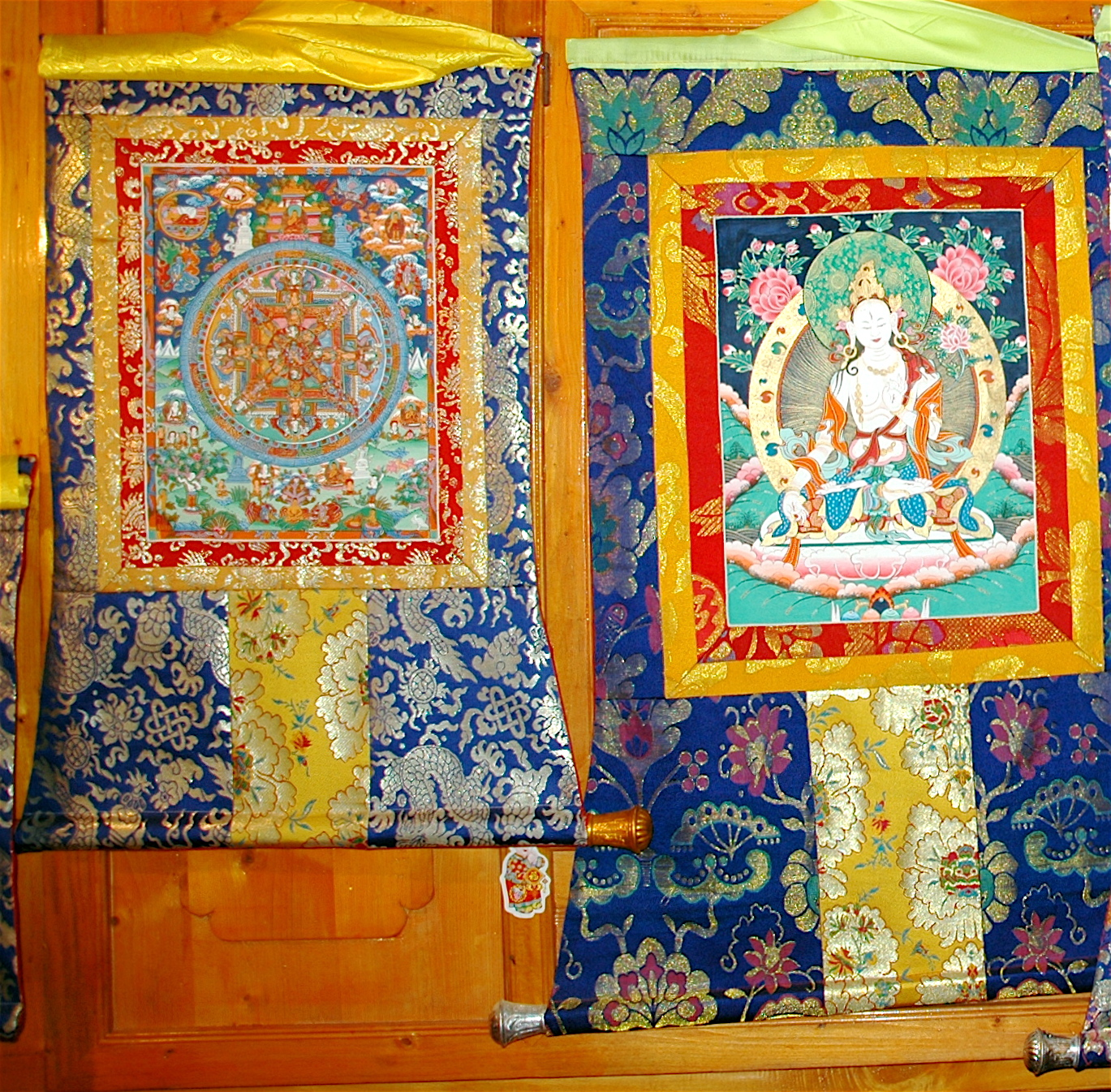 Thangkas (tibetan paintings on silk) painted by local monks in the Wutun Si monastery near Tongren, Qinghai, China